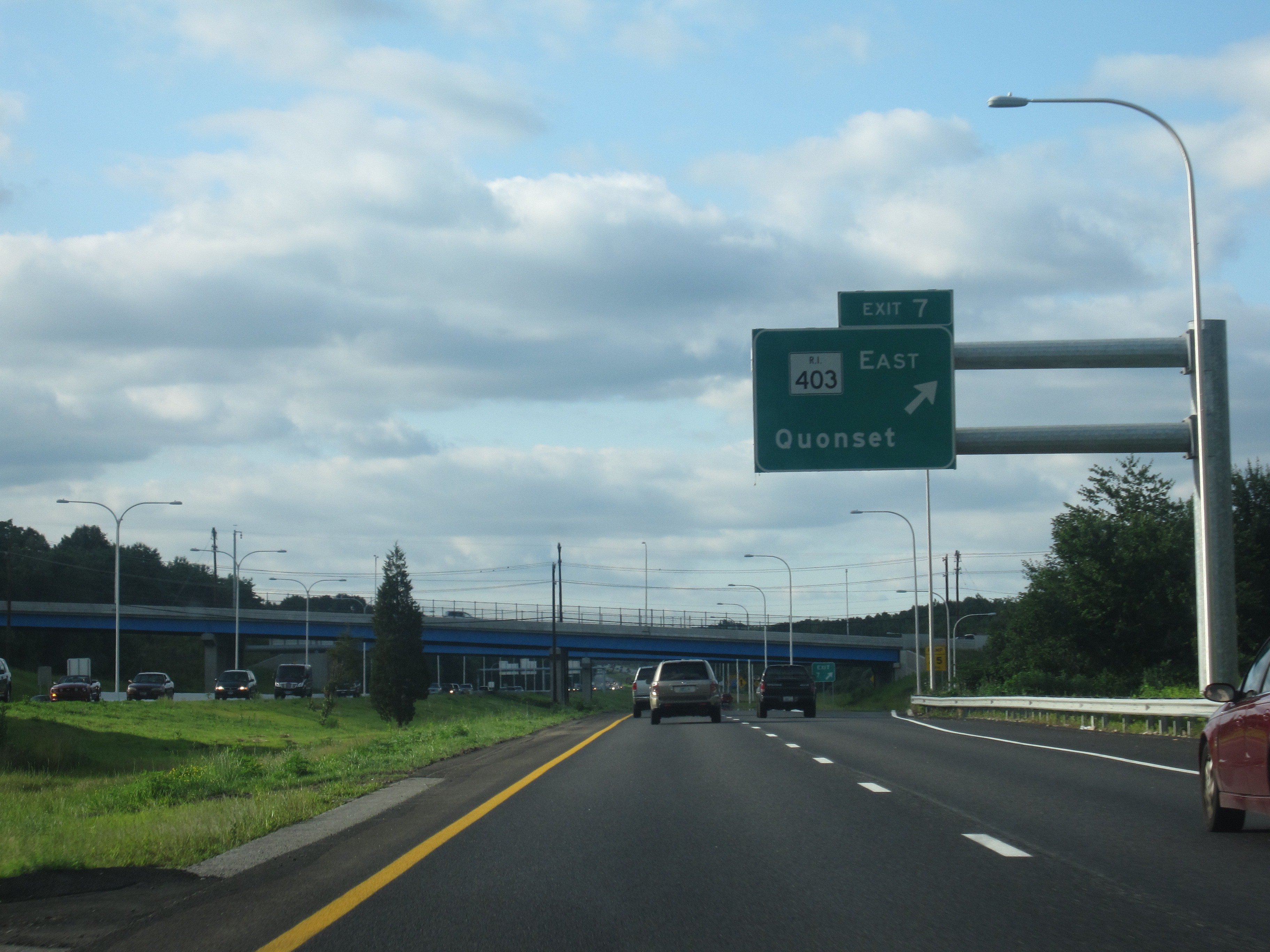 Exit 7 off Route 4 north in East Greenwich, serving Route 403 east and Quonset